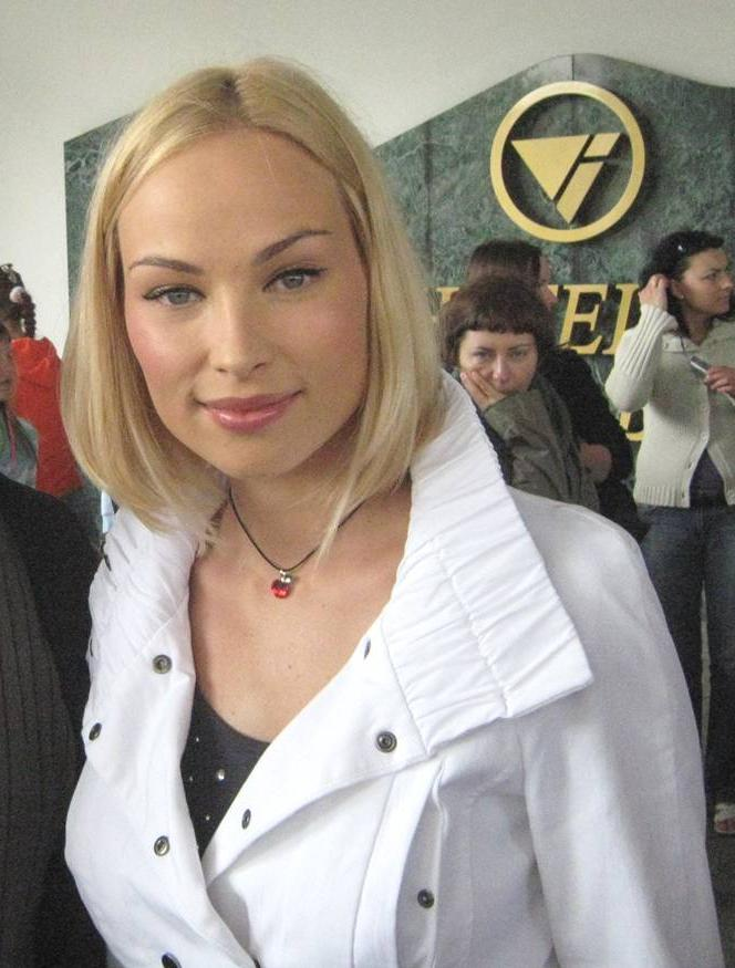 Actress Weronika Książkiewicz.